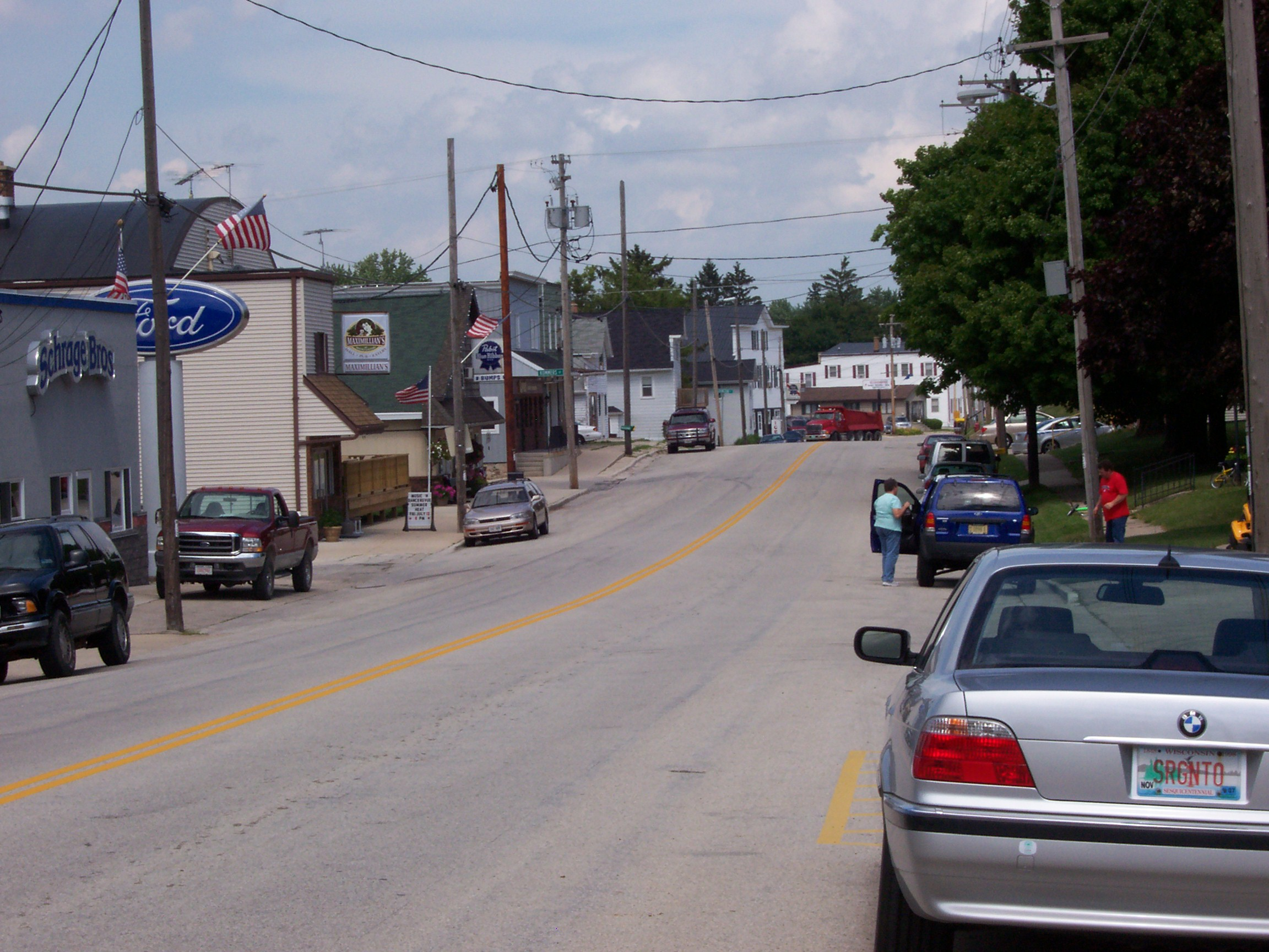 Looking east at downtown Mount Calvary, Wisconsin, USA.